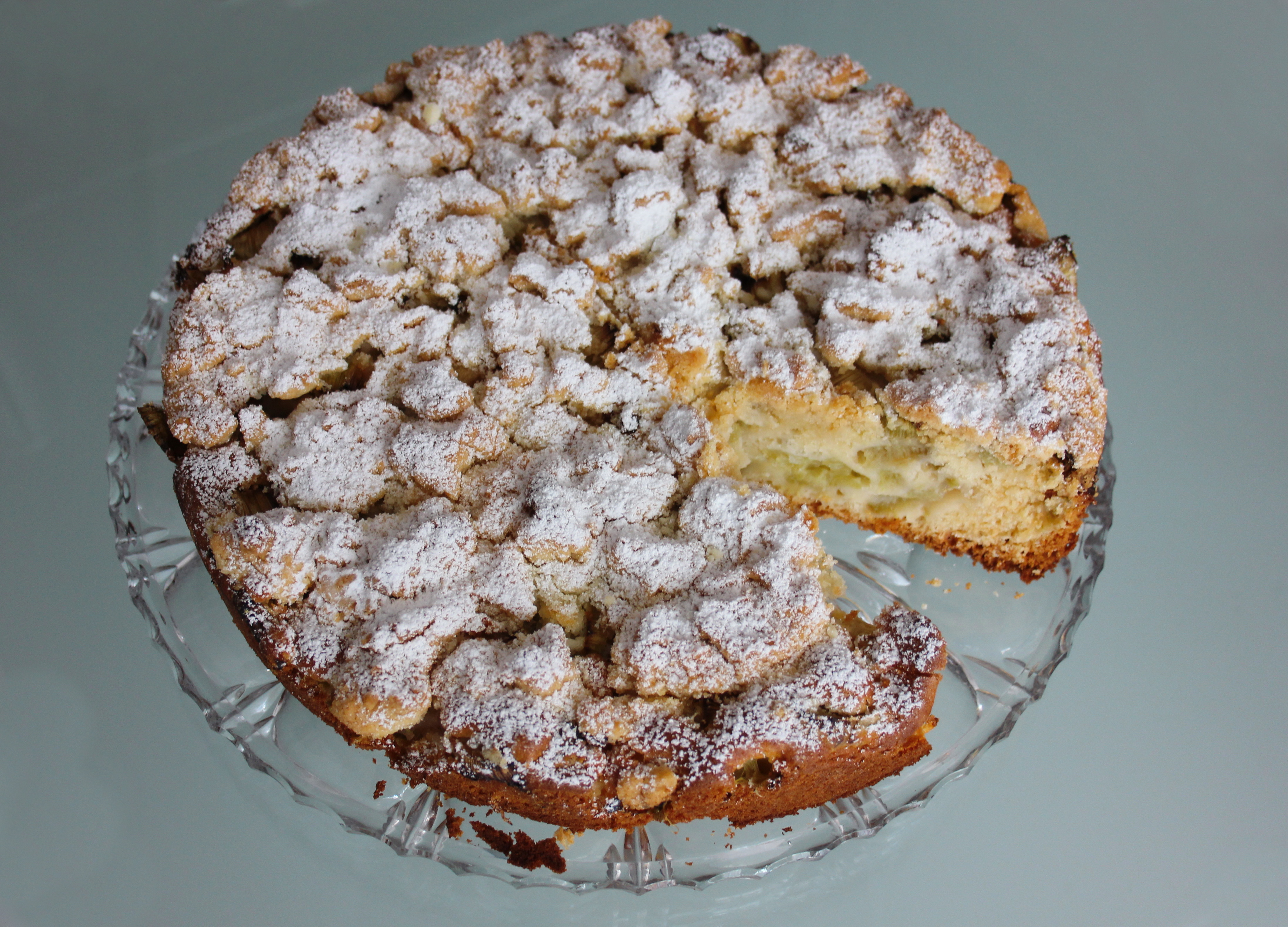 Rhubarb crumblecke